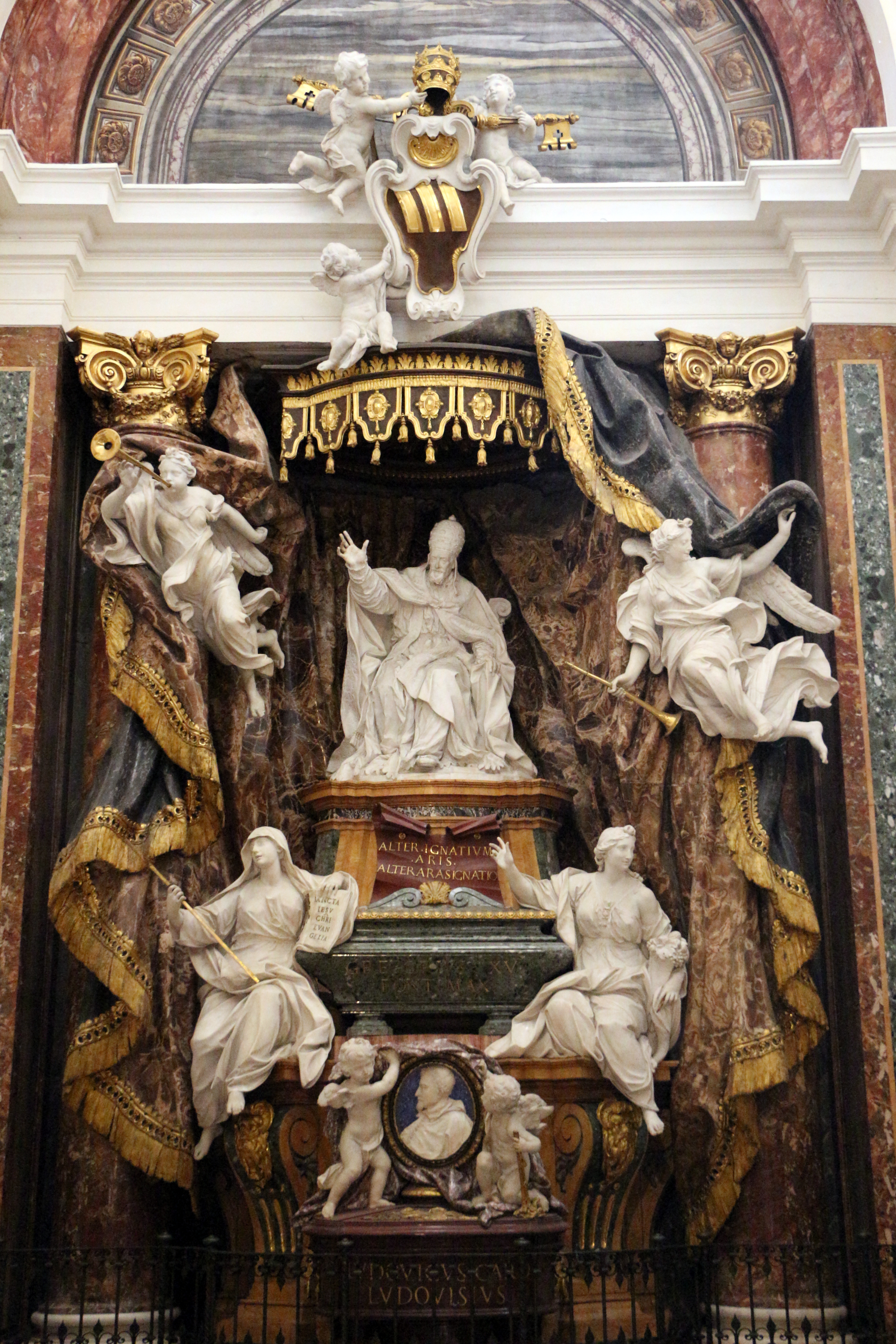 Interior of Sant'Ignazio (Rome)